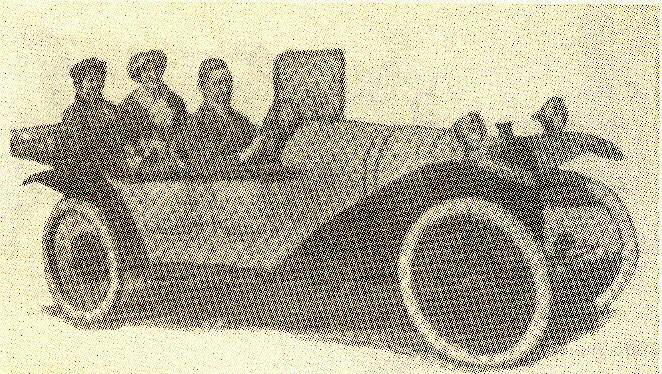 1915 Vixen Tandem Touring